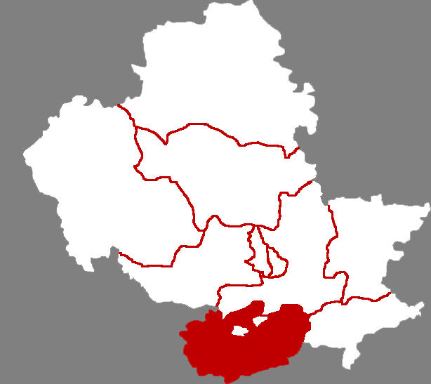 Location of Xinglong county in Chengde City, China